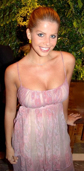 Brazilian actress Karina Bacchi.